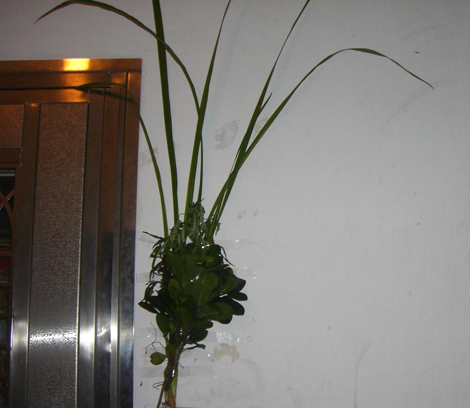 Herbs of artemisia argyi ( {2 } (àicǎo)) at the door to fend off diseases and bad luck at chinese dragon boat festival.